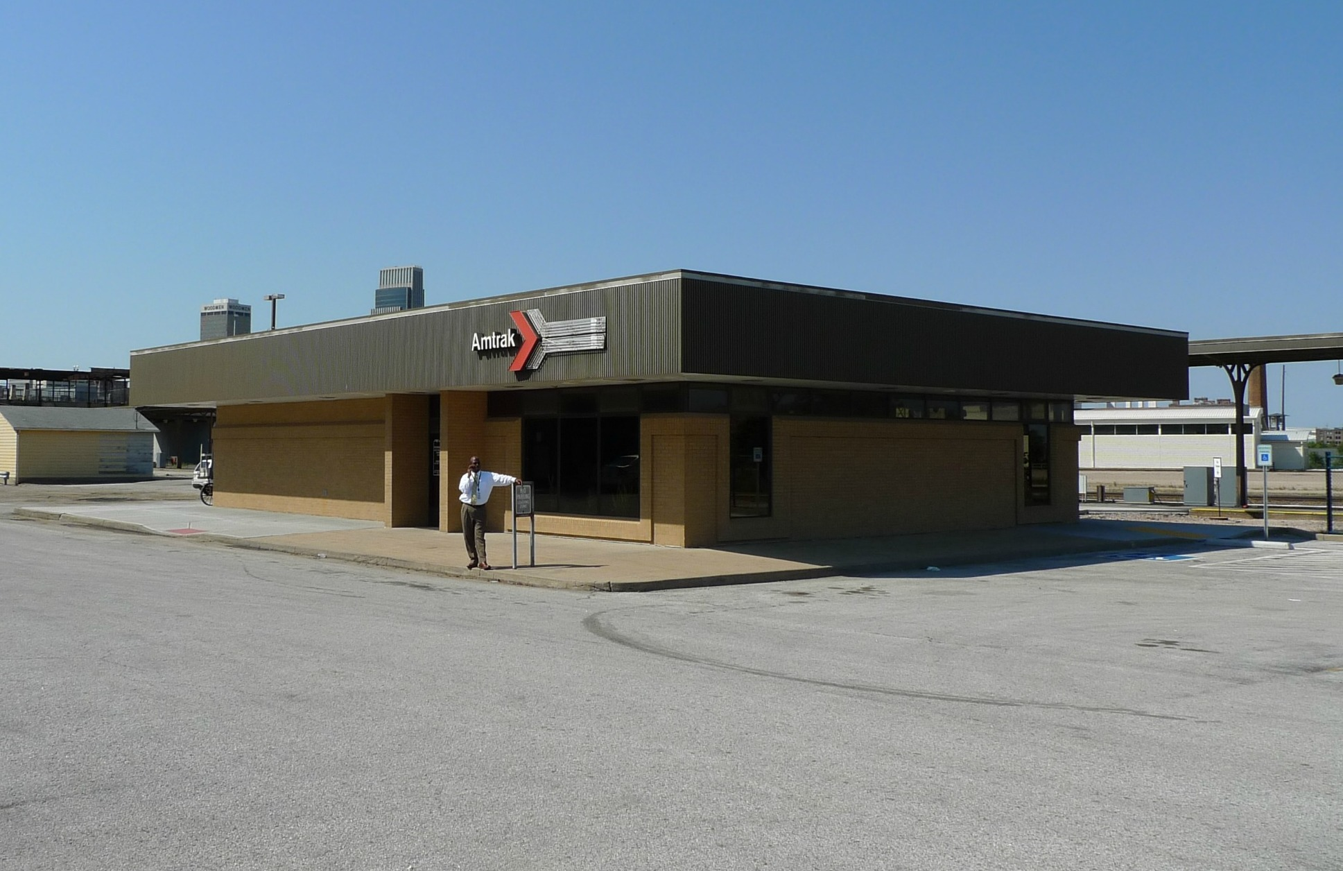 Amtrak Omaha Station with original CB&Q depot behind it.